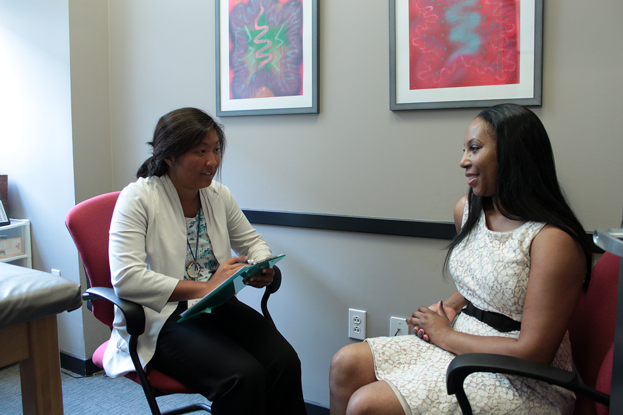 Medical Nutrition Therapy